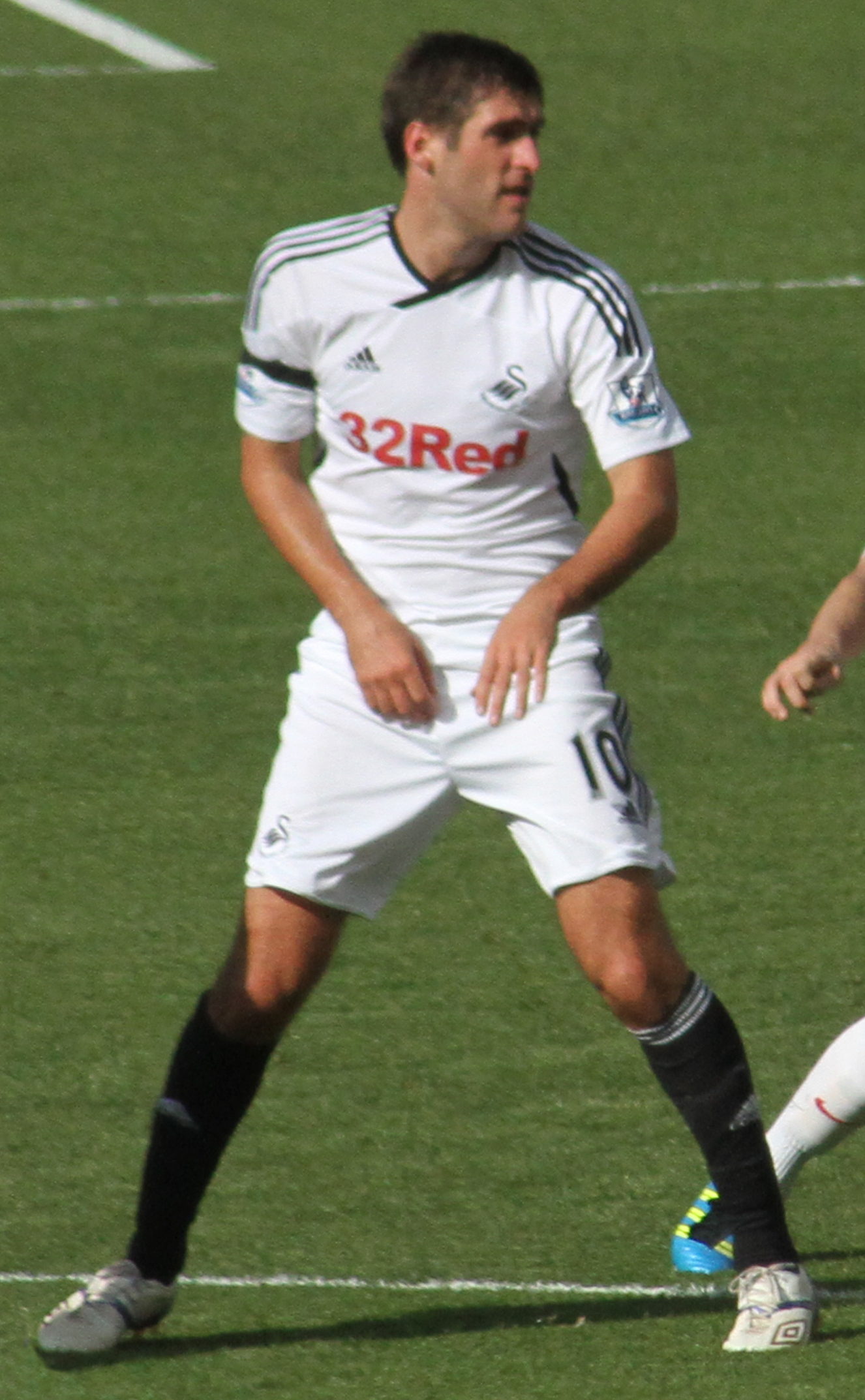 From left to right, Danny Graham, Laurent Koscielny, Nathan Dyer and Kieran Gibbs, Arsenal vs Swansea, 2011.